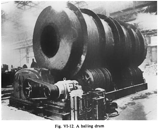 Balling drum used in sinter plants.